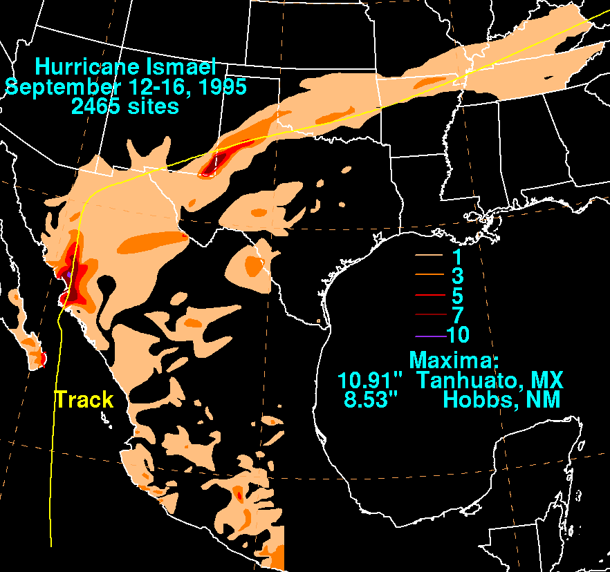 Rainfall produced by Hurricane Ismael during September 1995.